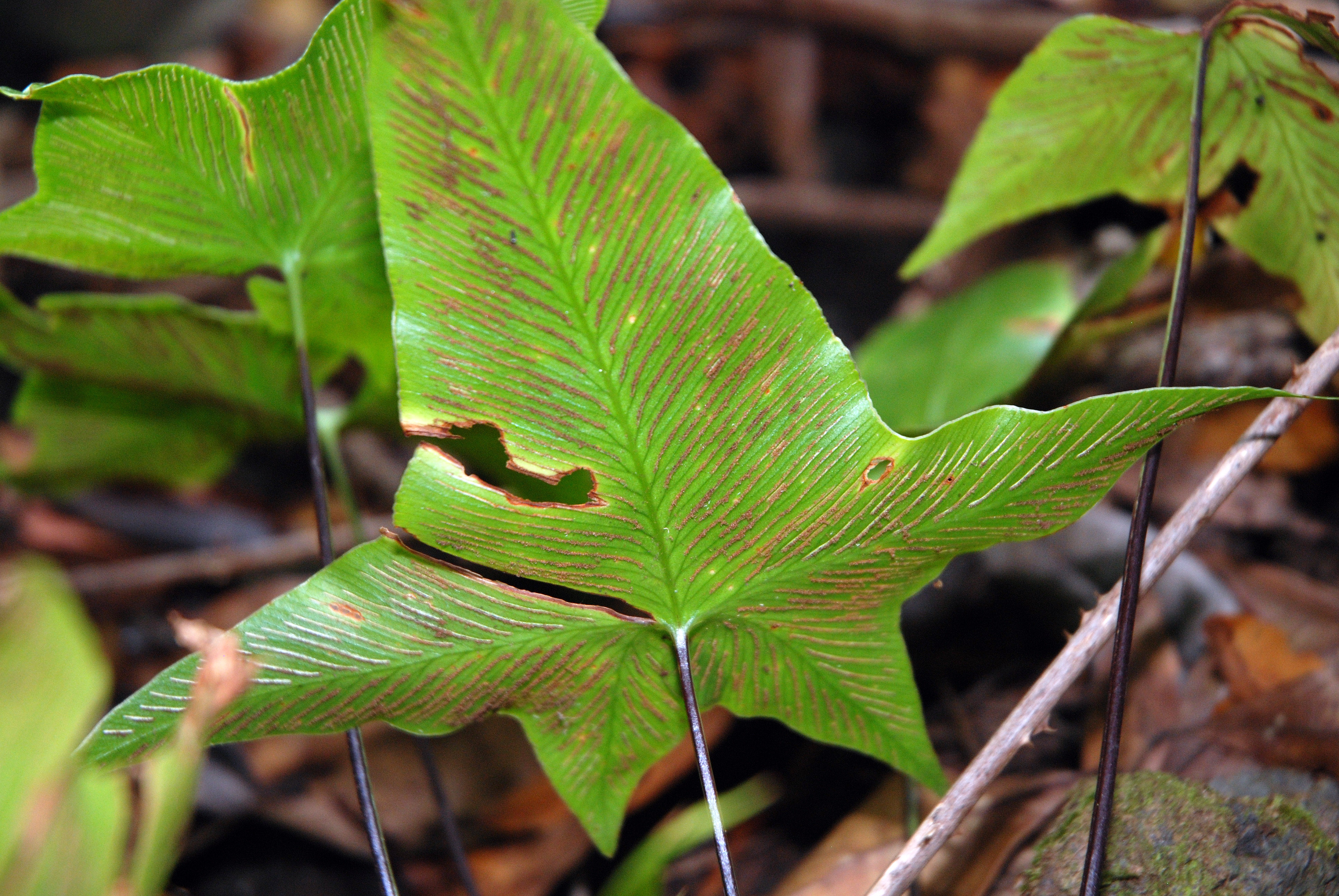 'Asplenium hemionitis, Cubo de la Galga, La Palma, Spain